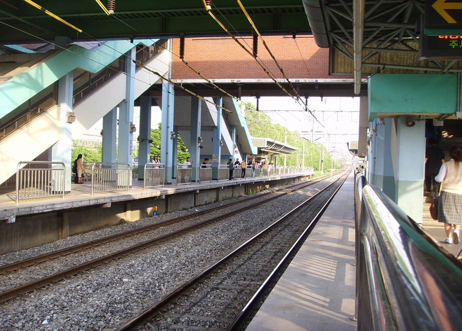 Hanyang Univ. at Ansan Station platform